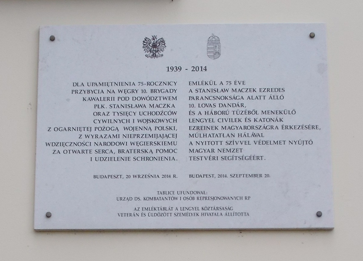 For the Hungarian assistance to Polish refugees and persecuted in 1939 plaque on Polish church facade (or Always Helping Virgin Mary church) planned by Aladár Árkay - Kőér and Óhegy streets corner, Óhegy neighborhood, 10th District of Budapest.